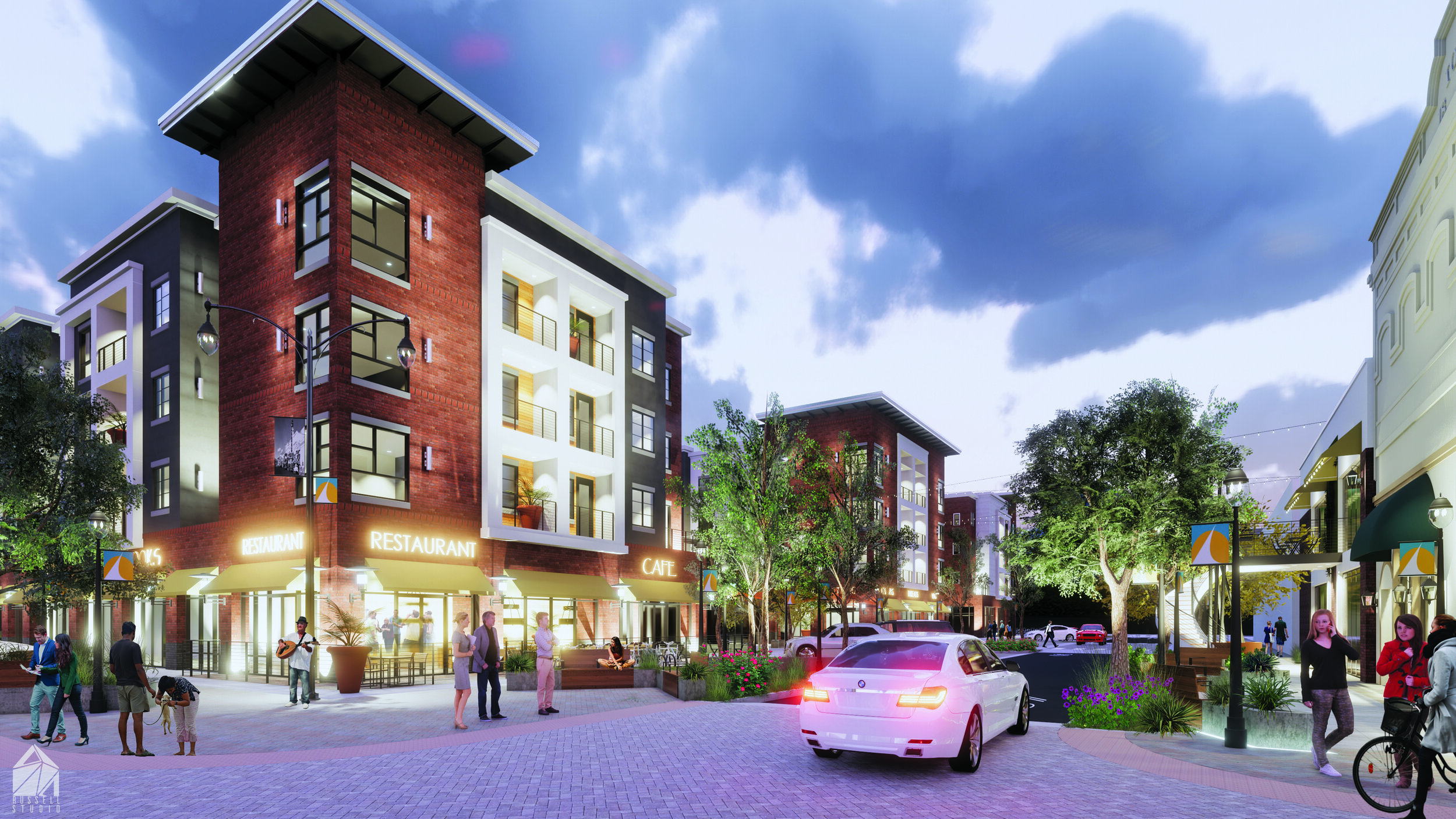 Rendering of Market Center, developed by K2 Development Corporation. Rendering created by Ryan Russell with RAD Studios in Redding.